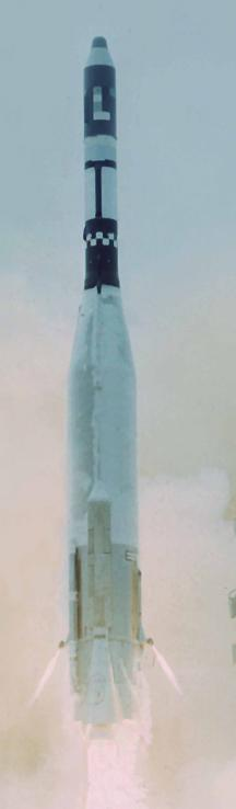 Launch of Atlas Agena D with satellite KH-7 08